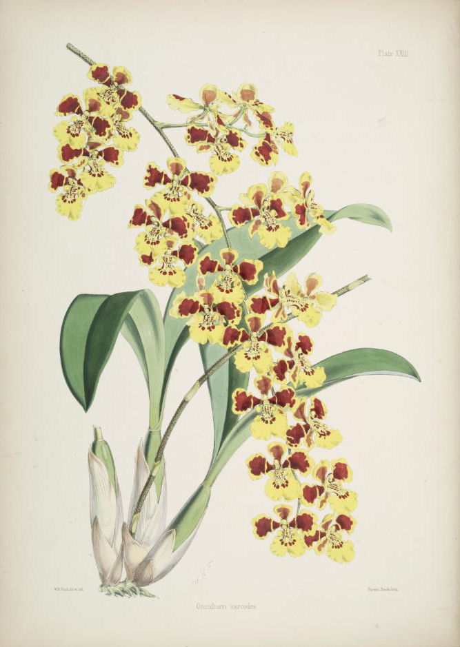 Illustration of Oncidium sarcodes